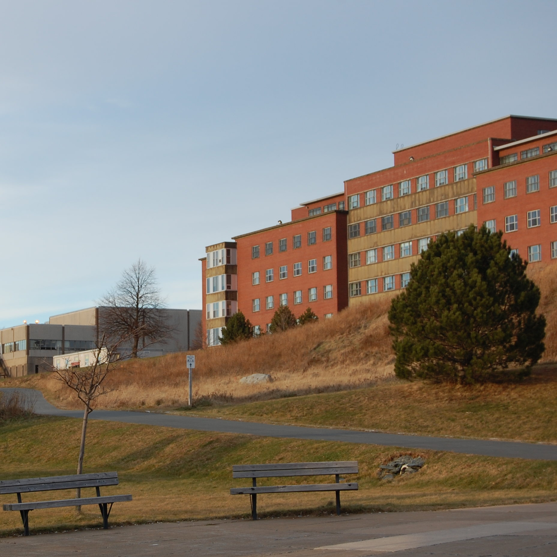 Nova Scotia Hospital, Dartmouth, as viewed from the southwest.